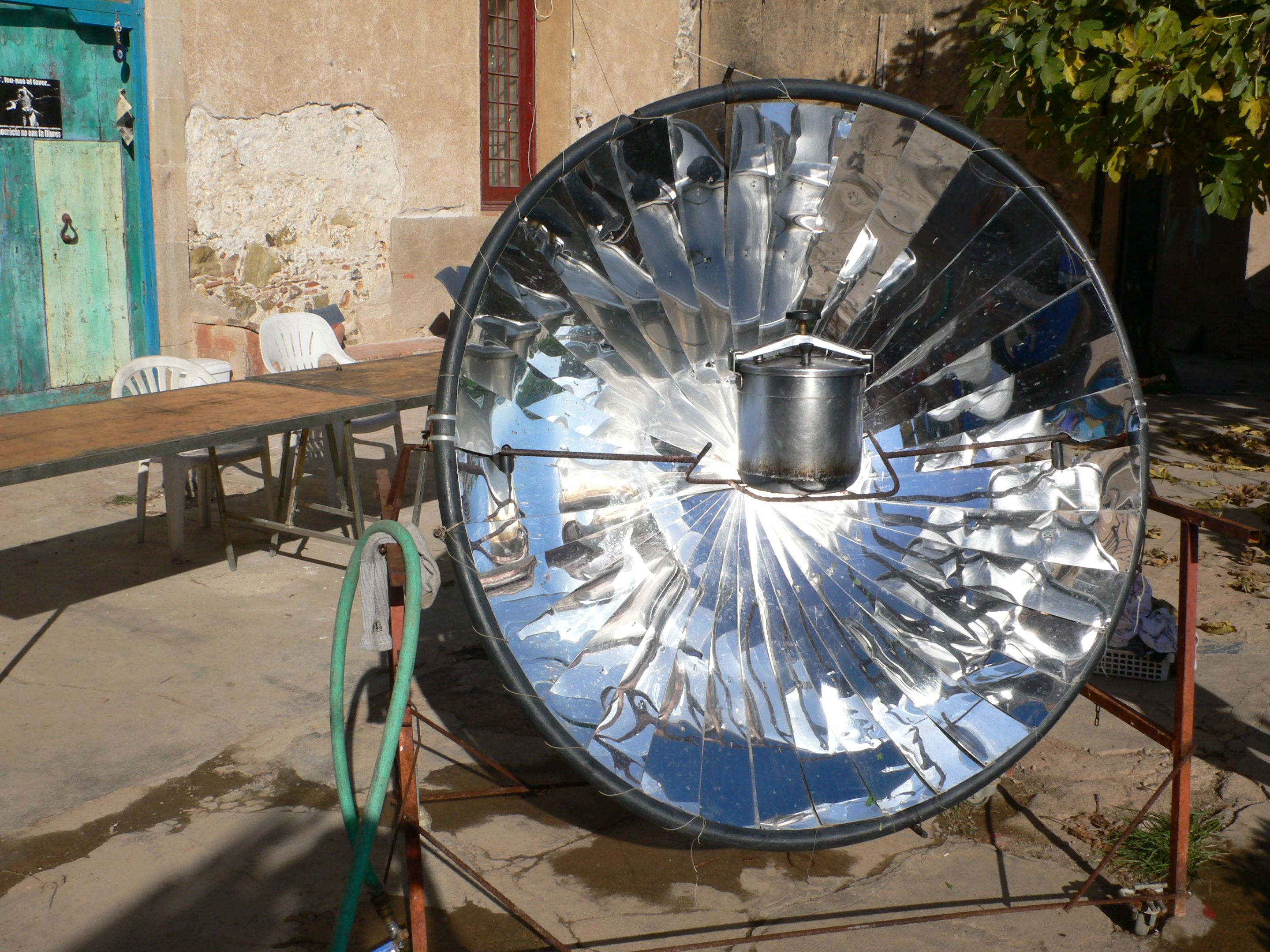 A Pot of water this size being warmed in this 400W solar parabola takes about 1 hour to boil - NOTE THAT PRESSURE COOKERS ARE NOT MADE FOR HEATING FROM ABOVE AND ON THE SIDES. NEITHER the pressure cooker's handle nor the internal rubber seal can withstand the heat and will melt.